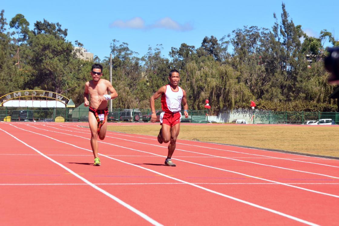 Baguio runner James Tellas, in traditional Cordillera bahag, leads the inaugural run during the inauguration of the rubberized track of the Baguio Athletic Bowl on January 29.(PIA/ Roshiel Nunag -PIA/SLU Intern)